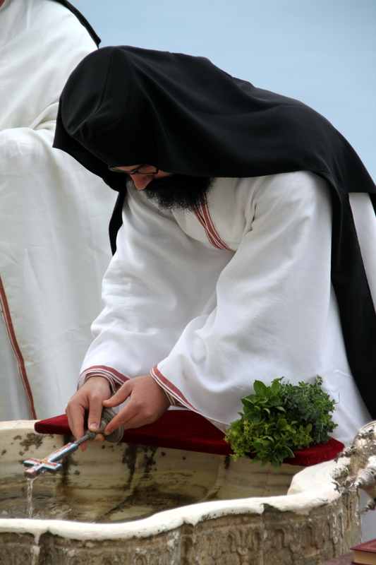 Feast of the Epiphany in the Monastery of Prophet Elias of Santorini: The Blessing of the waters Epiphany in Prophet Elias of Santorini [Larger Image Exists]